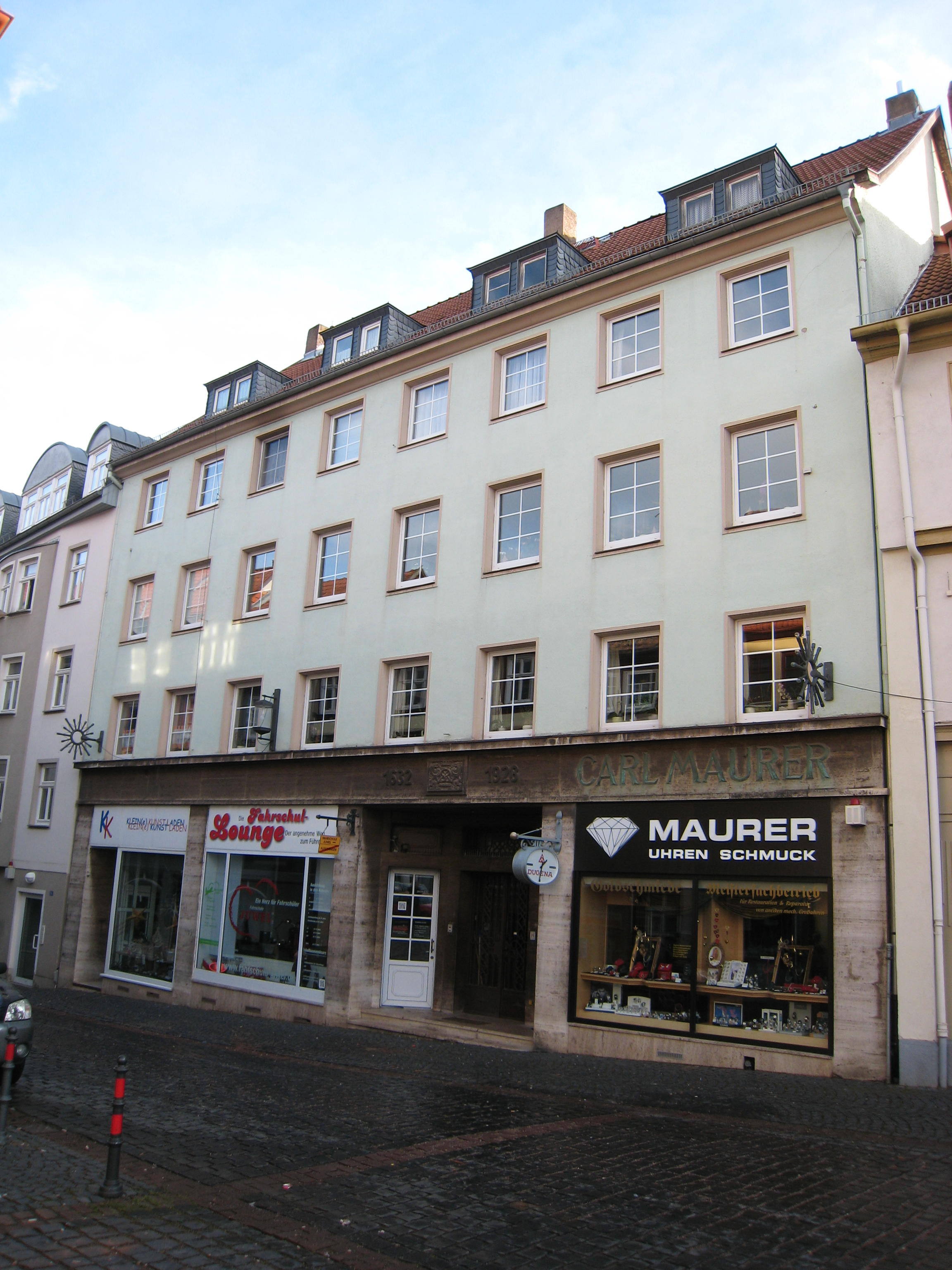 Hünersdorfstraße 22-24 Gotha